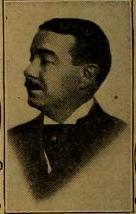 Major League Baseball executive Charles Webb Murphy